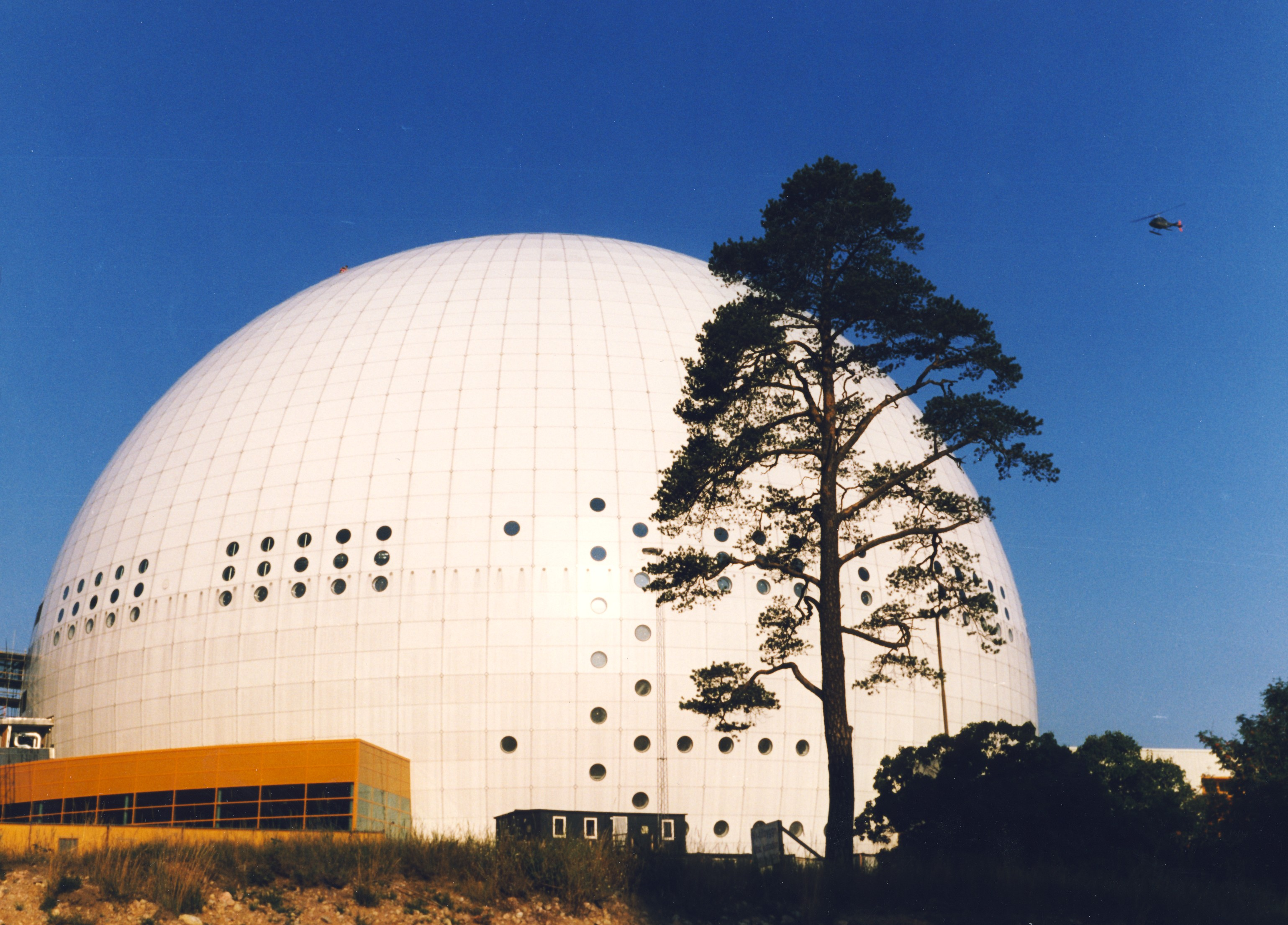 Ericsson Globe arena